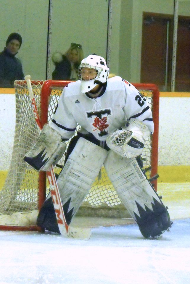 Photo taken by Devan Mighton of CIS women's hockey 2013-14.